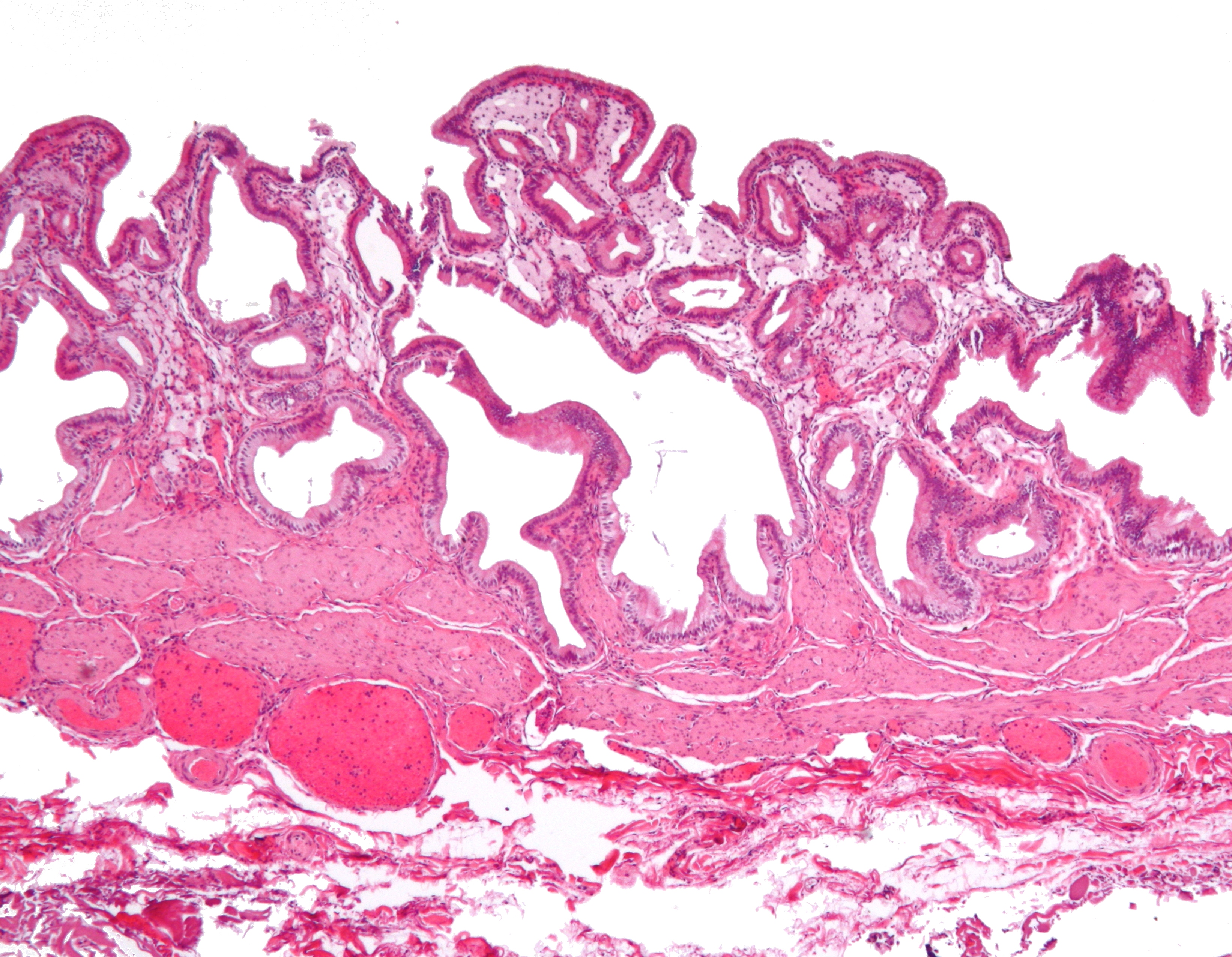 Low magnification micrograph of cholesterolosis of the gallbladder. Cholecystectomy specimen. H&E stain. Dead lipid laden macrophages (foam cells) are seen in the finger-like projections into the gallbladder lumen. It should be apparent that this is gallbladder, as no muscularis mucosae is present (as elsewhere in the gastrointestinal tract). The blood vessels are congested and the subserosa edematous. Cholesterolosis is often associated with cholecystitis. See also Image:Gallbladder cholesterolosis intermed mag.jpg Image:Gallbladder cholesterolosis intermed mag cropped.jpg Another case: Image:Gallbladder cholesterolosis micro.jpg